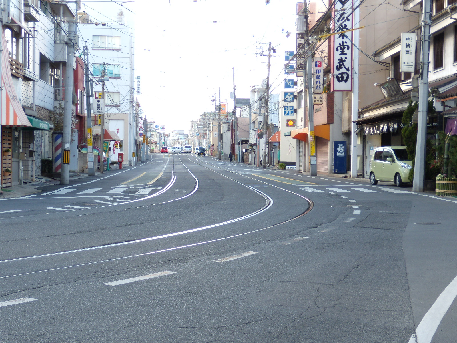 Okayama Erectric Tramway Chunagon Station on the Okayama prefectural road No.28